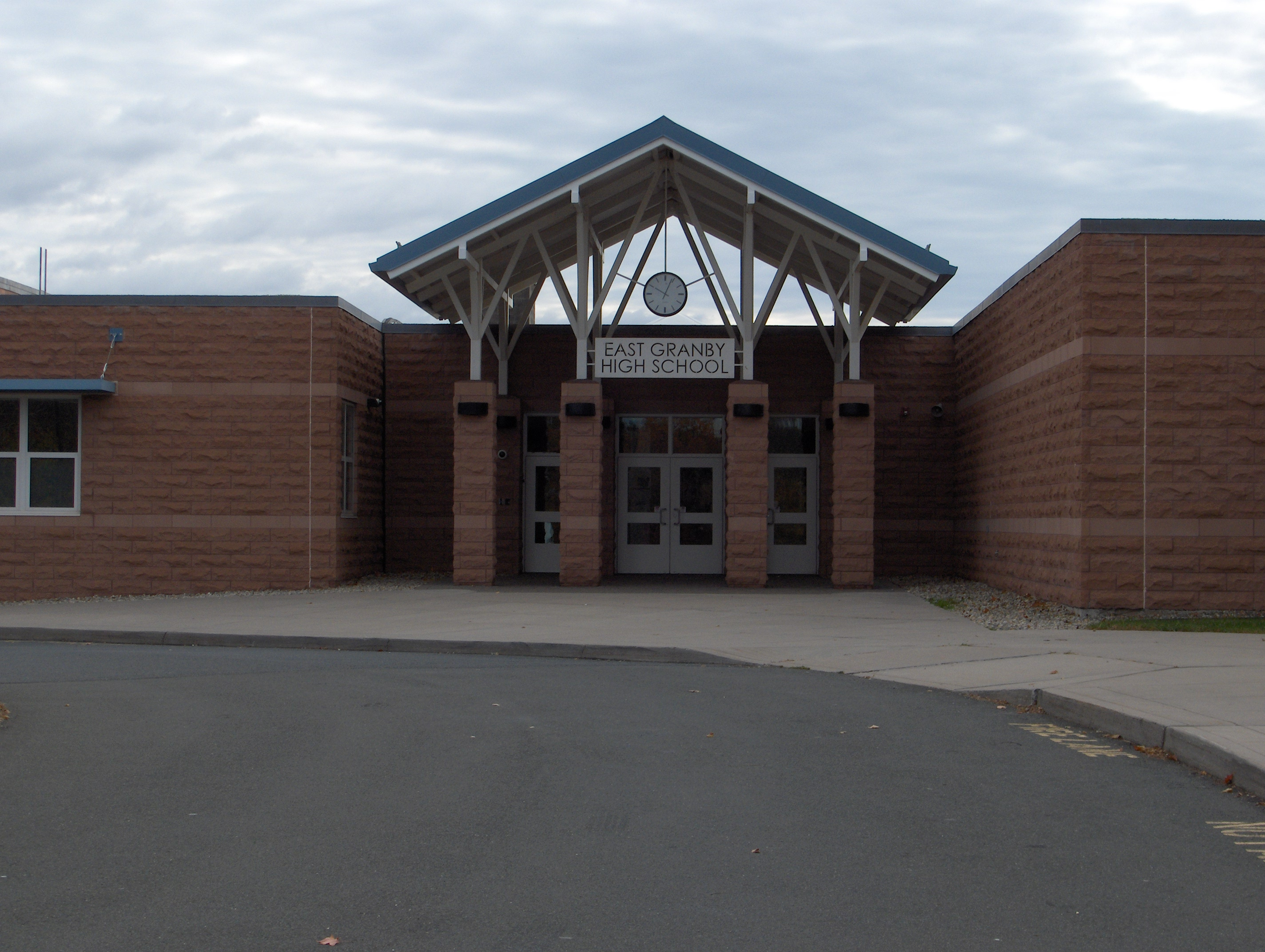 East Granby High School in East Granby CT USA